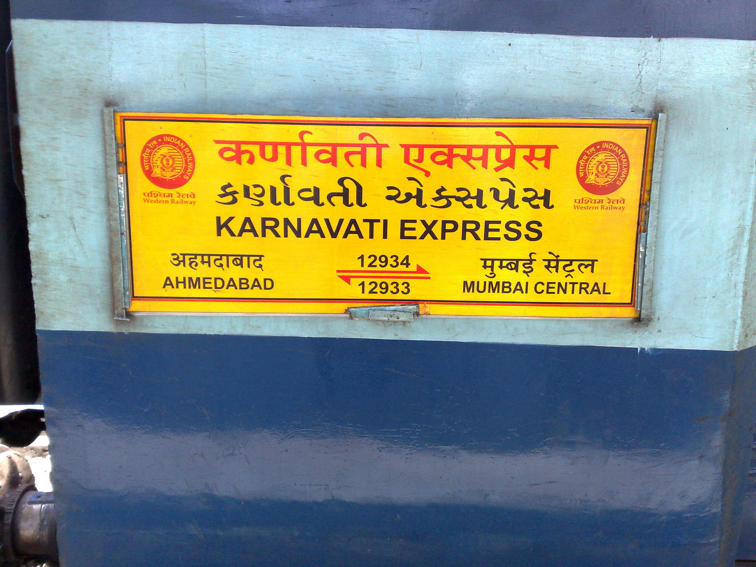 Karnavati Express